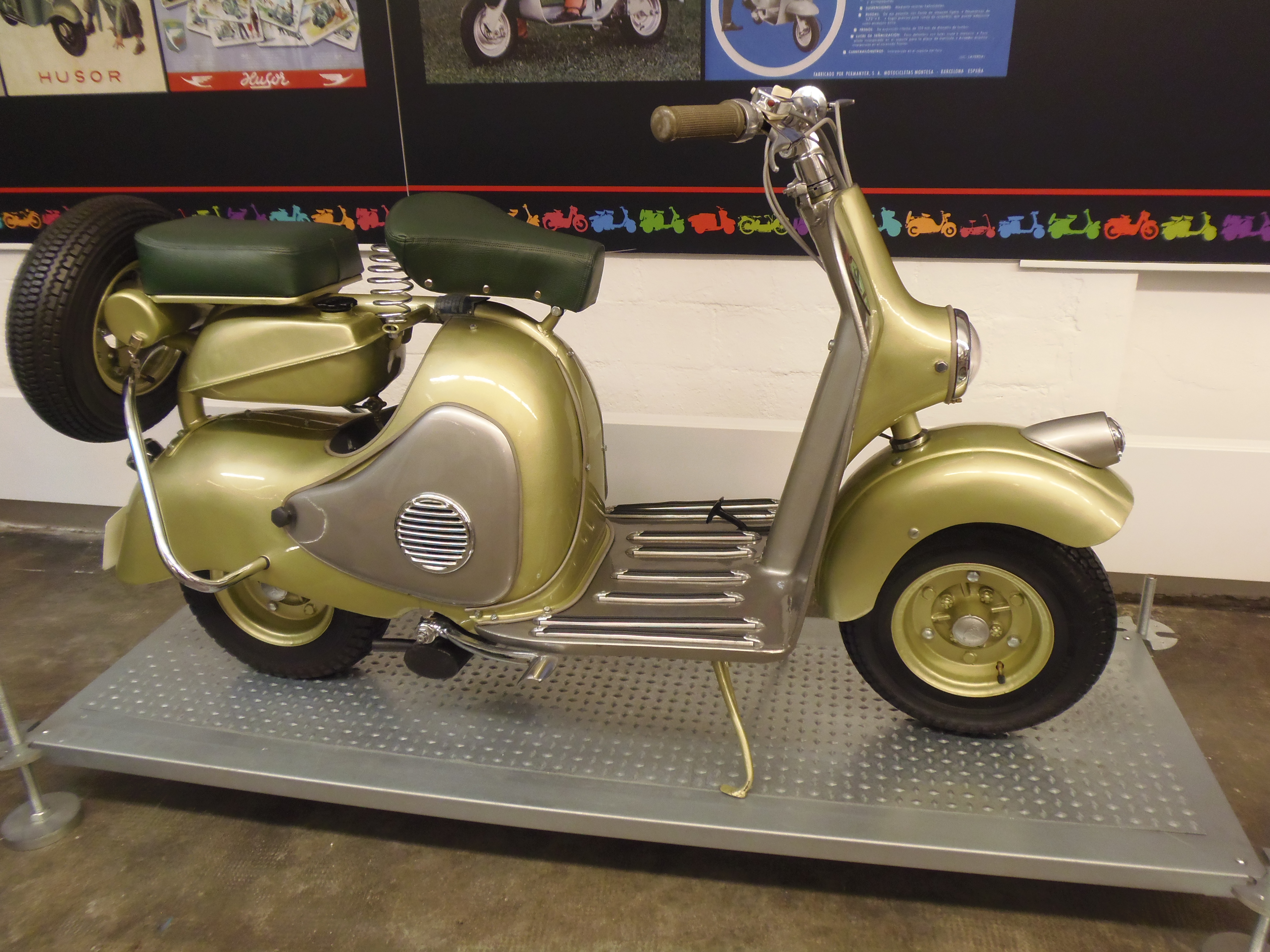 Iruña 202 125 cc (1954), made in Iruña-Pamplona (Basque Country)